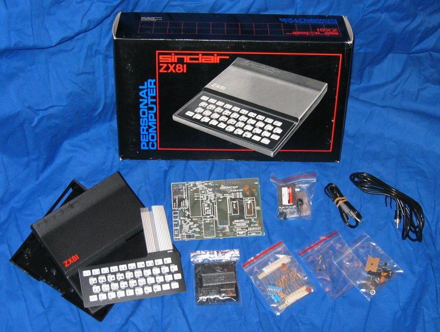 Photograph of the Sinclair ZX81 home computer in kit form.